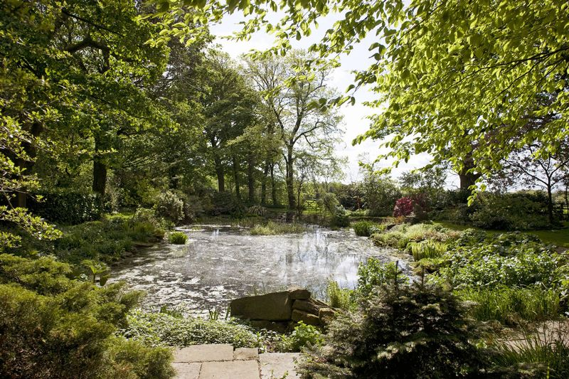 Medieval Duck Pond